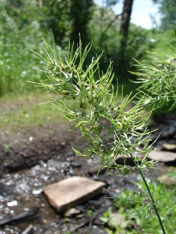 Poa bulbosa from Sheri Hagwood. Bureau of Land Management. United States, ID, Bureau of Land Management Jarbidge Resource Area. June 30, 2006.